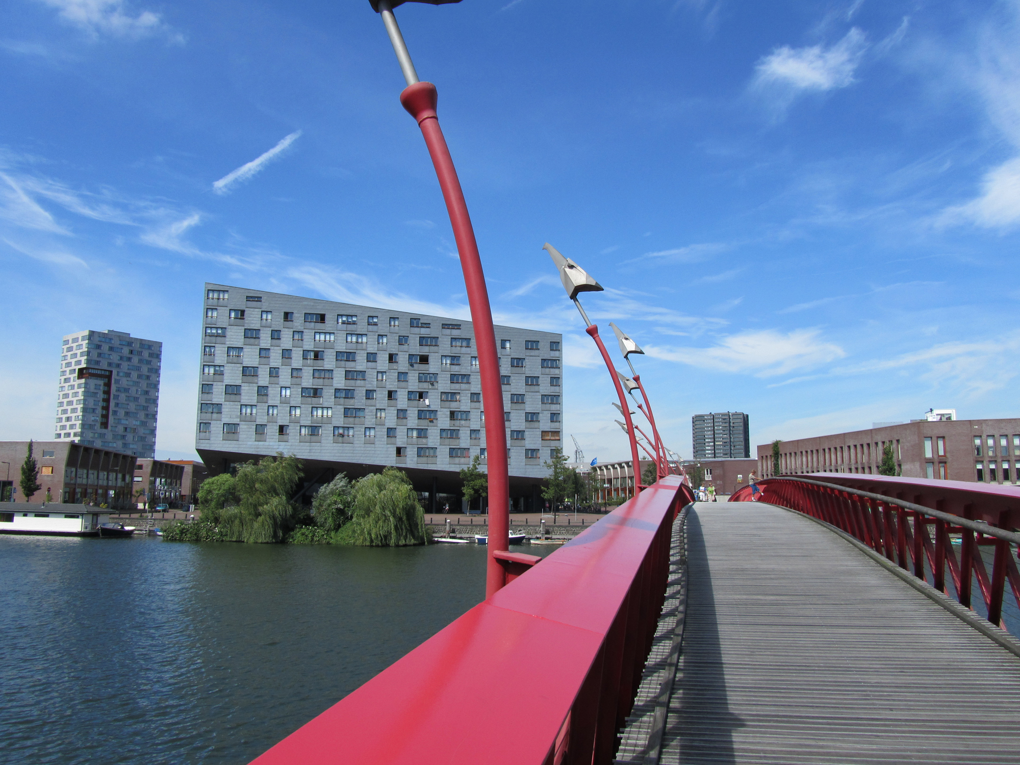 Modern architecture in the Eastern Docklands of Amsterdam. View north towards Sporenburg from the bridge for pedestrians and bicyclists across the Spoorwegbassin, connecting Borneo-eiland to Sporenburg. On the left is the apartment building The Whale.